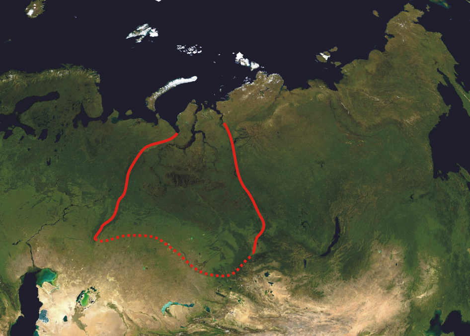 A composed satellite photograph of Asia in orthographic projection This is NASA "Blue Marble" image applied as a texture on a sphere using Art of Illusion program. The observer is centered at (40° N, 85° E), at Moon distance above the Earth. This modification describes boundaries of West Siberian Plain (red line).